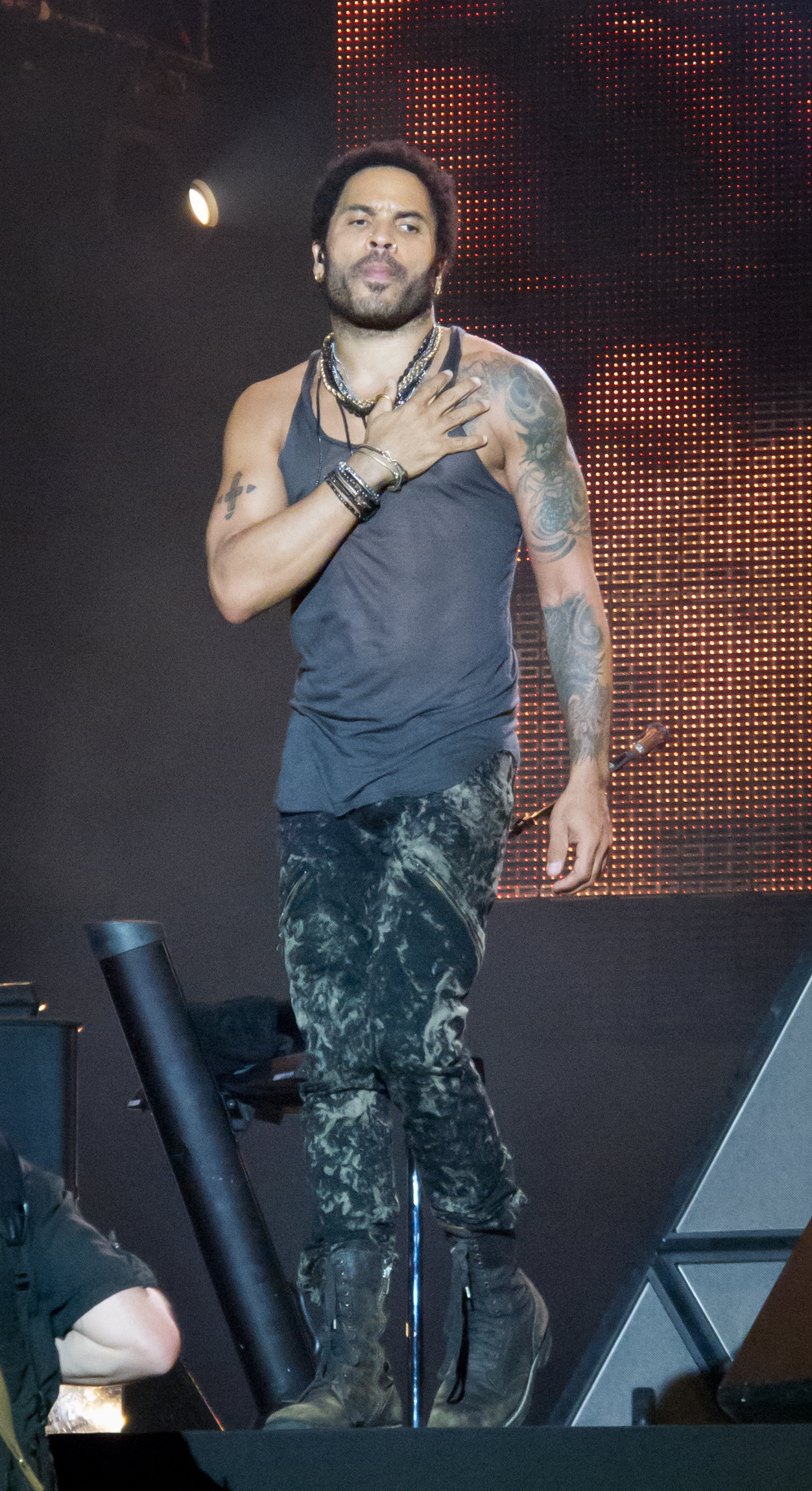 Lenny Kravitz live in Rock in Rio Madrid 2012.